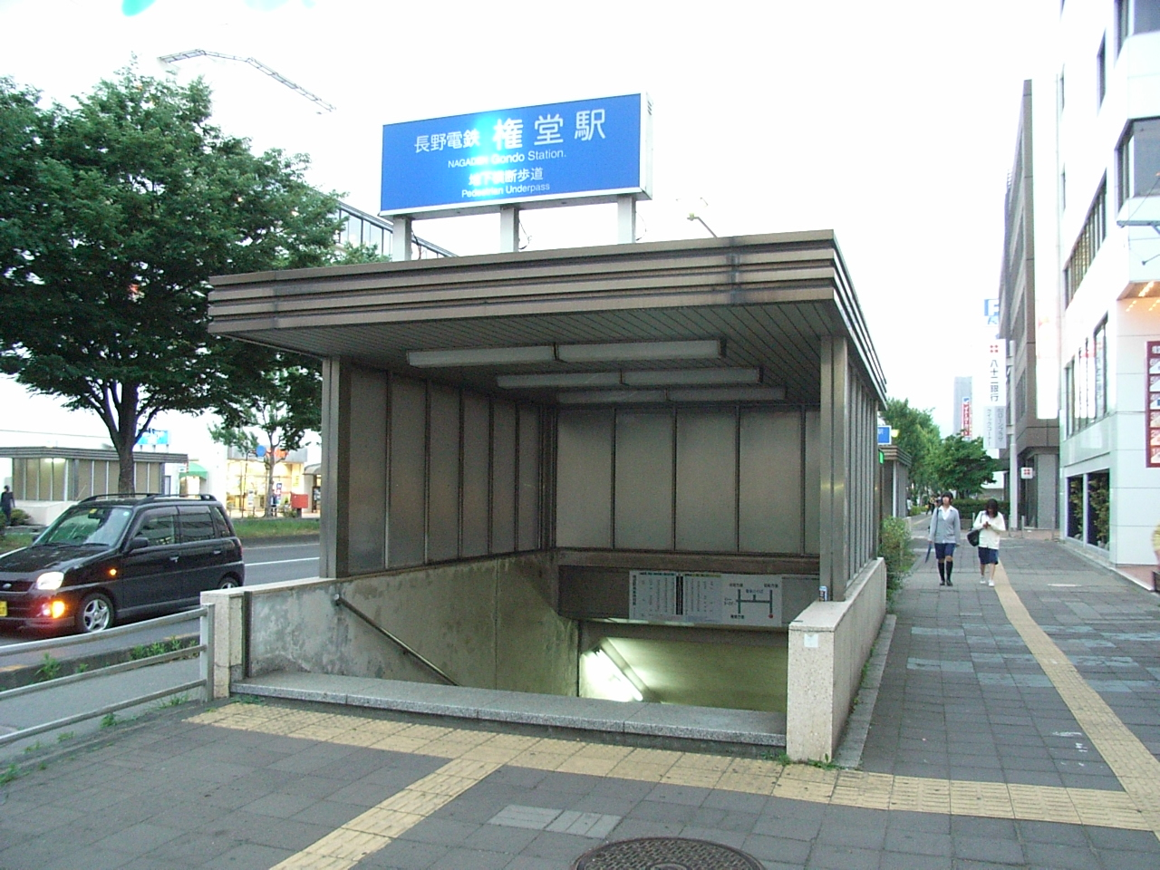 Gondo Station on Nagano Electric Railway Nagano Line. (2199-10,Tsuruga,Nagano-shi,Nagano-ken,JAPAN)